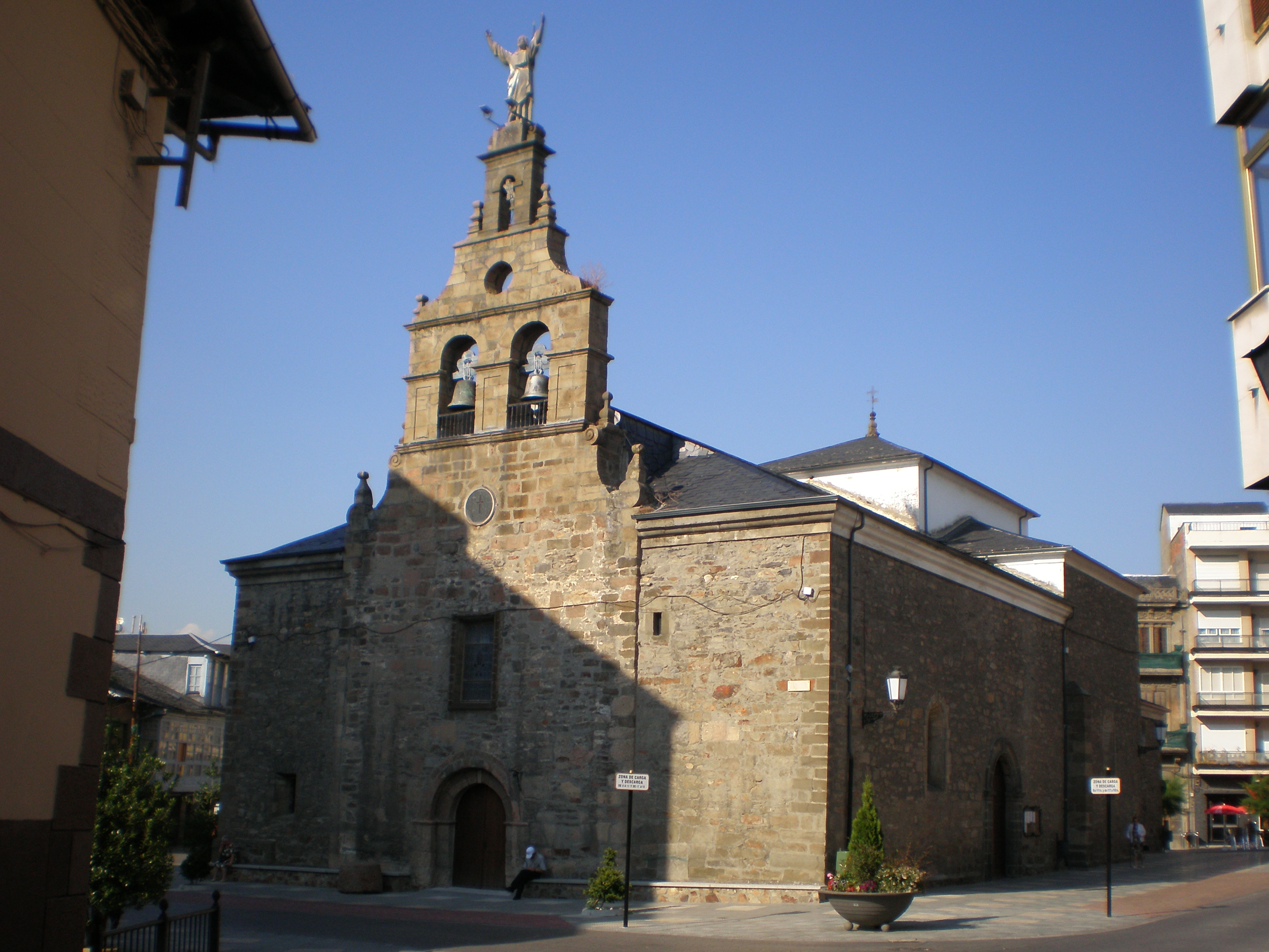 Bembibre.